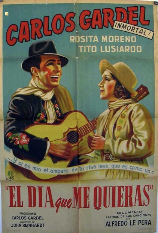 El día que me quieras (The day that you will love me). Original Poster,1935. Courtesy Private Collection. Аҧсшәа: El día que me quieras. Poster original, 1935. Cortesía Colección Privada.